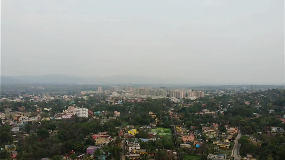 Jamshedpur Skyline 1